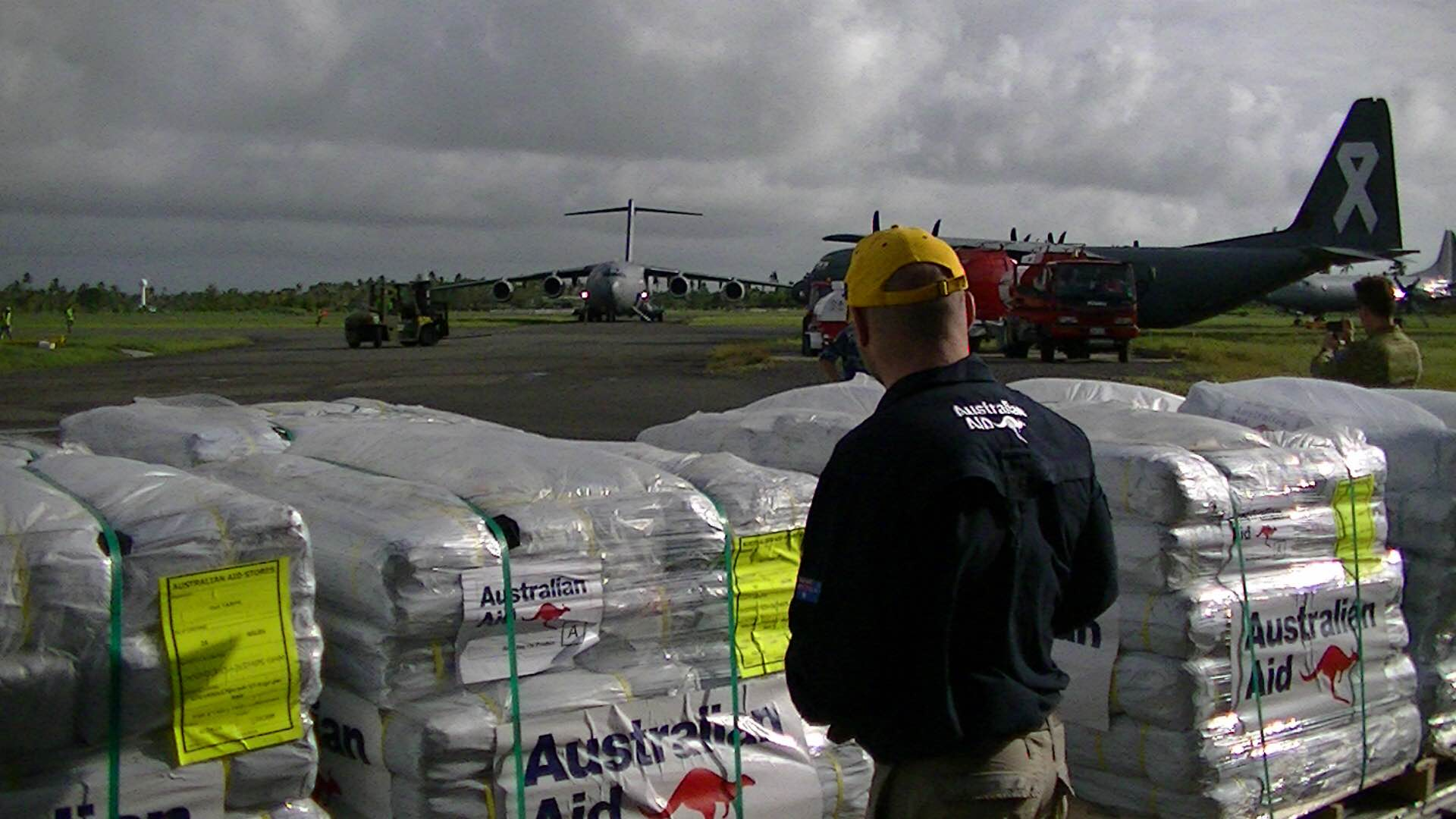 Humanitarian supplies being loaded into MHR90s for transport to Koro island